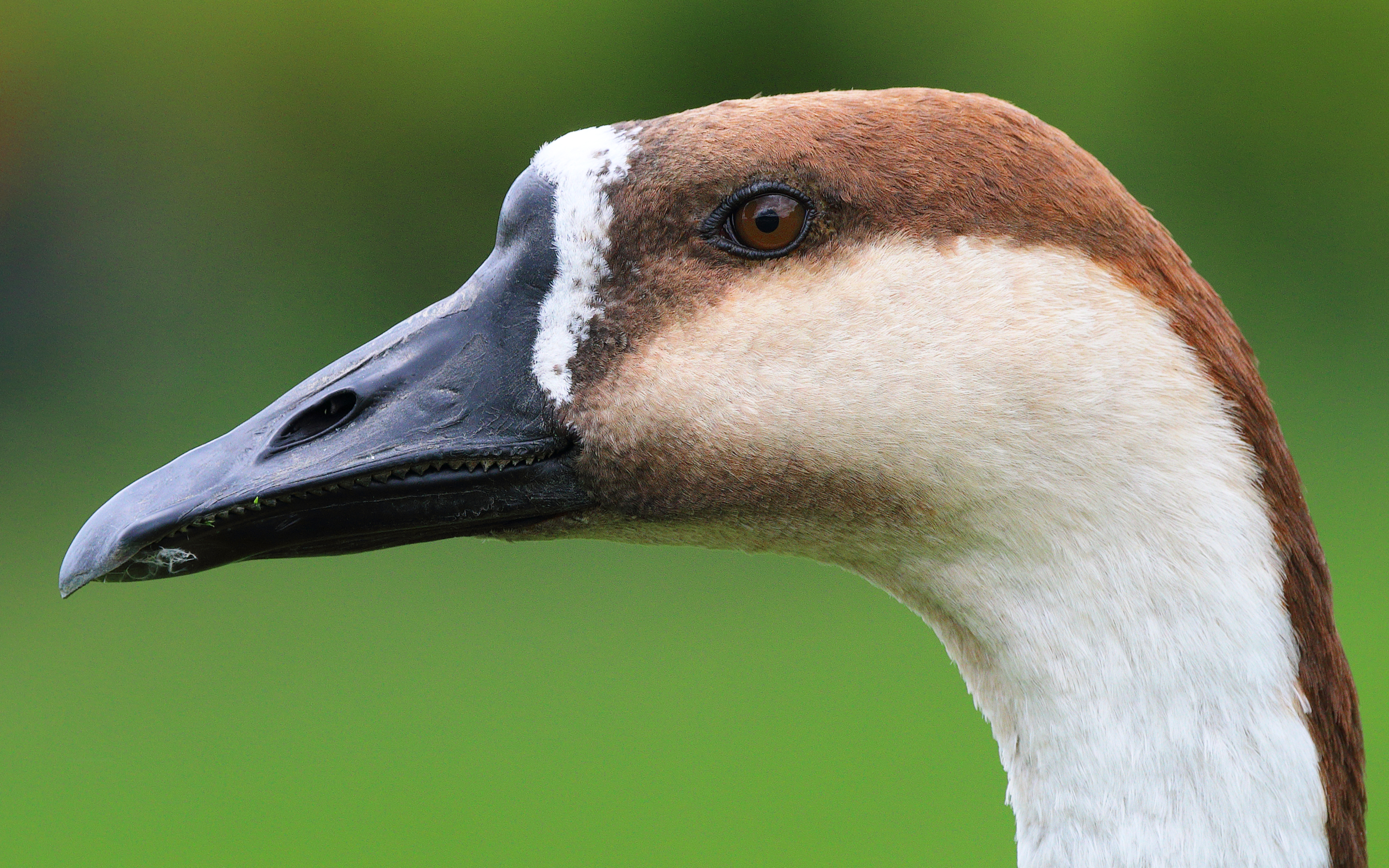 Anser cygnoides in Heidelberg, Germany.